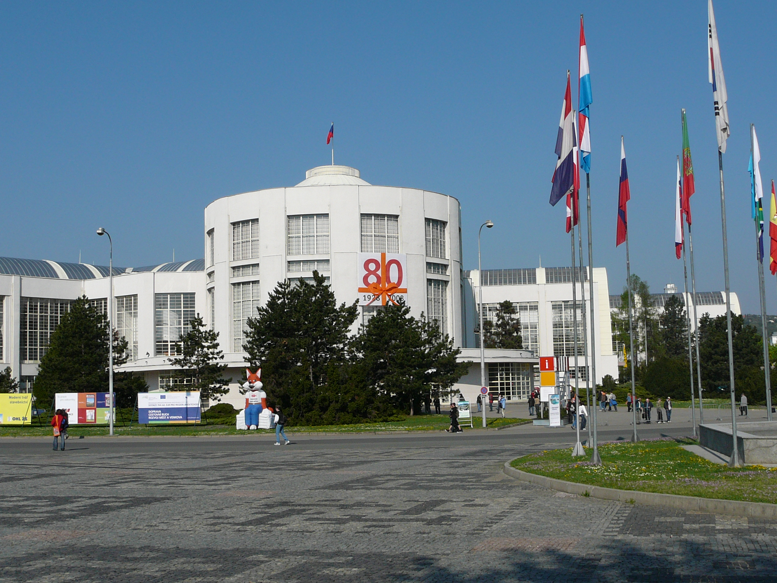 Pavilion A on the Brno Exhibition Grounds in the Building Fair.